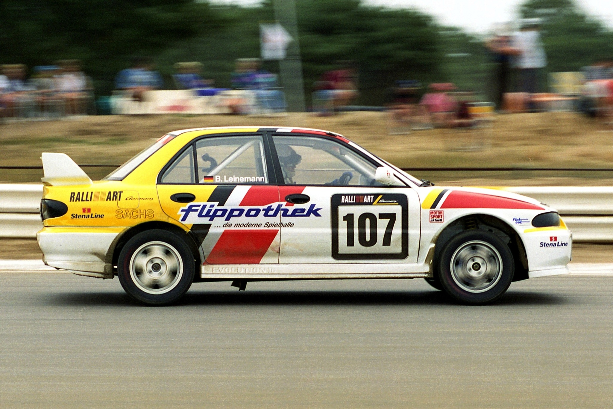 Bernd Leinemann, Germany, Mitsubishi Lancer Evo3, Division 1 Group N, 1996 FIA European Rallycross Championship, Duivelsbergcircuit, Maasmechelen, Belgium